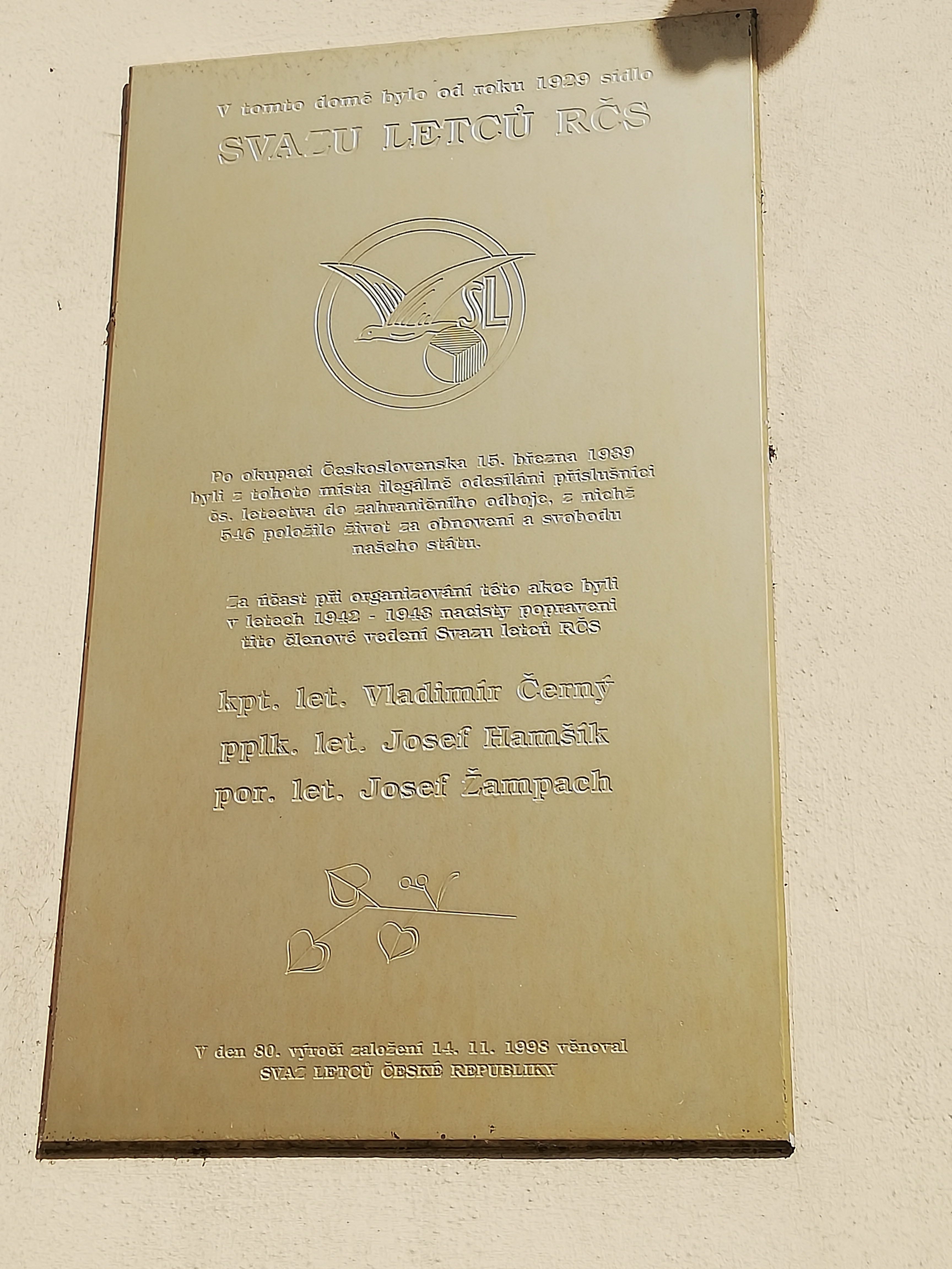 Since 1929 (to 1941), the "Union of Pilots of the Czechoslovak Republic" had its office located on the third floor of a building at the address: Na Poříčí Street 1061/37 in Prague 1, Nové Město. Presence of the office is still commemorated (June 2020) by a memorial plaque on the left side of the front door.